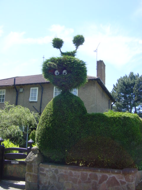 Loch Ness Monster Topiary on Street Hey Lane